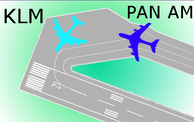 Tenerife Disaster - Italian KLM and Pan Am's positions